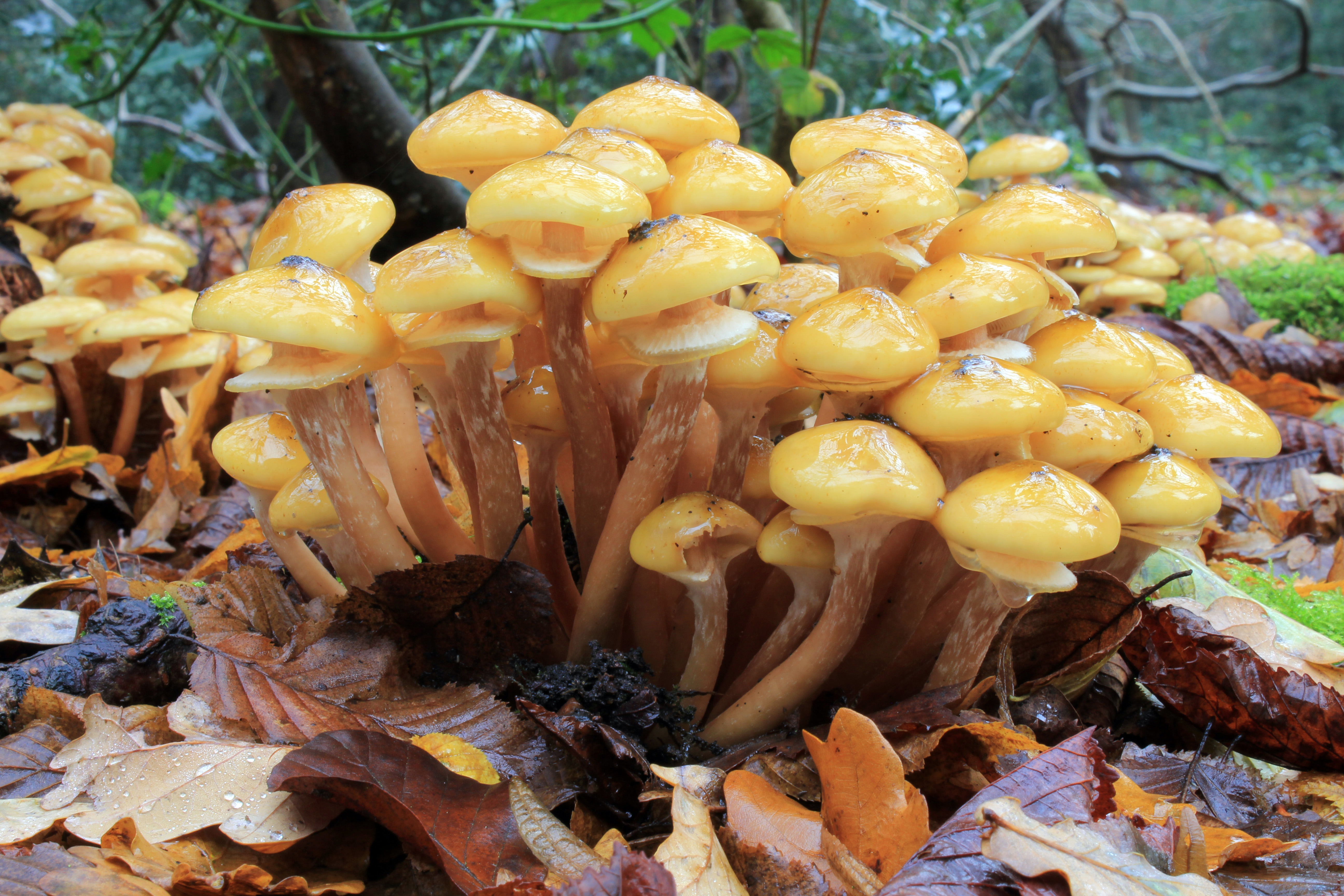 Armillaria mellea, Honey Fungus, taken in Whitewebbs Wood, Enfield, UK